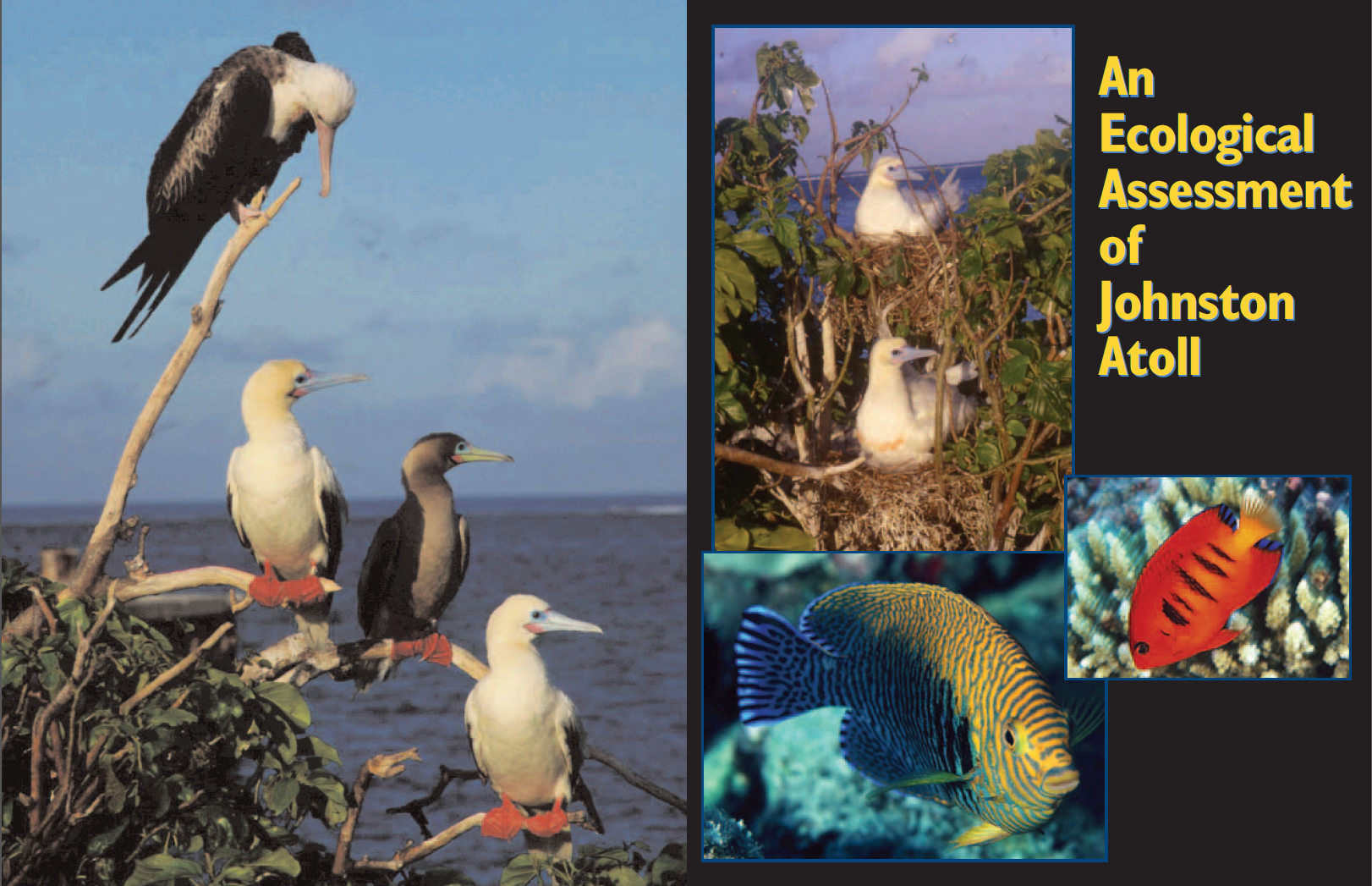 An Ecological Assessment of Johnston Atoll cover